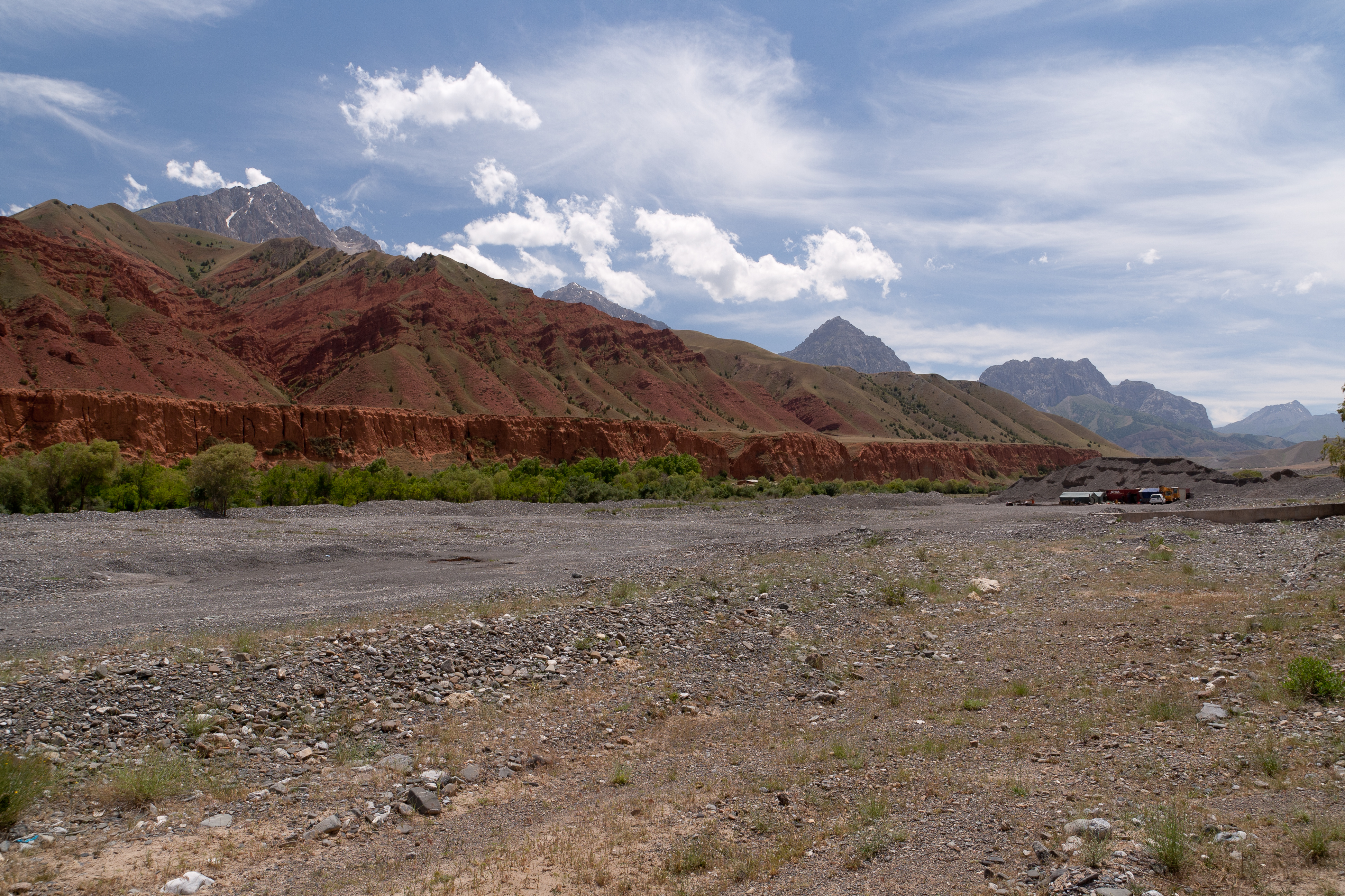 Gulcha river valley in southern Kyrgyzstan